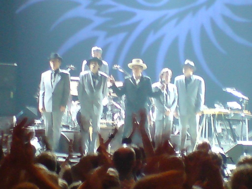 "A picture of Bob Dylan and band in the end of the show in Copenhagen, Denmark april the 2. 2007"